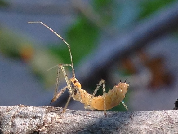 Zelus renardii nymph on valley oak branch in Bidwell Park.